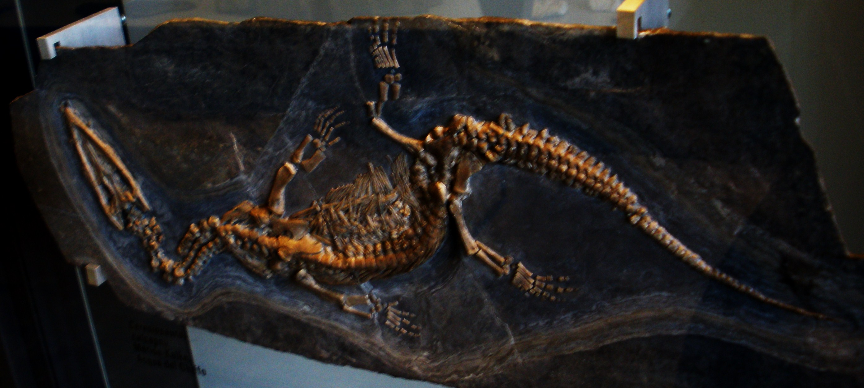 fossil ceresiosaurus